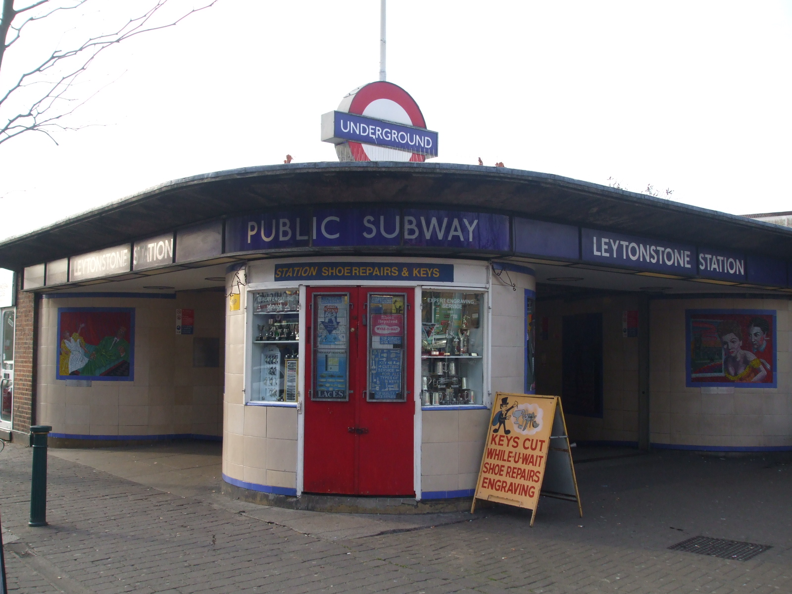 Leytonstone tube station eastern entrance, on Church Lane